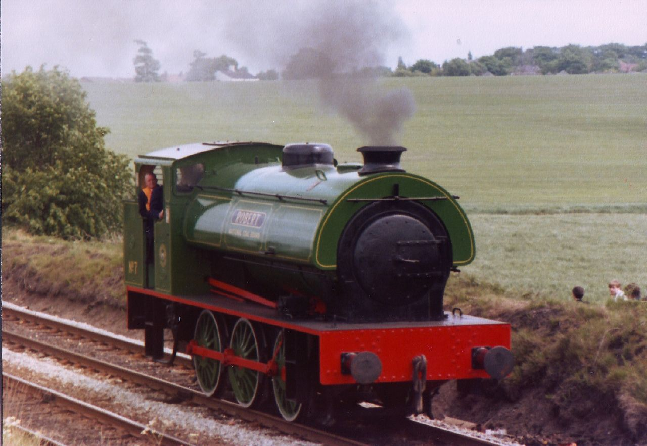 This is a typical colliery shunter, in private livery , taken at the 150th anniversary celebrations of the Rainhill trials.